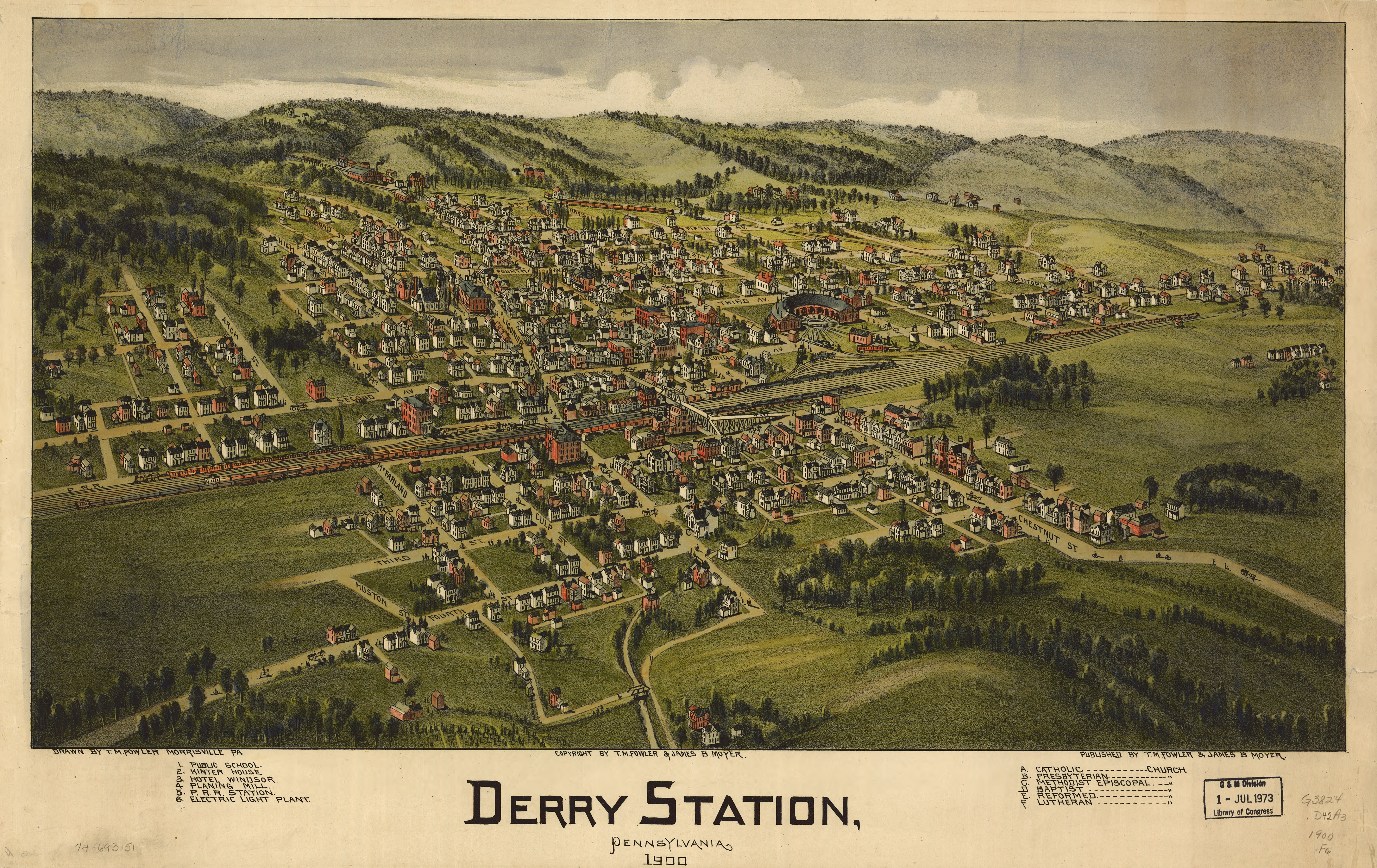 Bird's-eye view of Derry Station (now just "Derry"), Pennsylvania in 1900. Show the PRR station and works. From the Library of Congress; their metadata follows: Derry Station, Pennsylvania 1900. Drawn by T. M. Fowler. Fowler, T. M. 1842-1922. (Thaddeus Mortimer), CREATED/PUBLISHED Morrisville, Pa., T. M. Fowler & James B. Moyer [1900] NOTES Perspective map not drawn to scale. Bird's-eye-view. Reference: LC Panoramic maps (2nd ed.), 761.1 Indexed for points of interest. SUBJECTS Derry (Pa.)--Aerial views. United States--Pennsylvania--Derry. RELATED NAMES Moyer, James B. MEDIUM col. map 32 x 57 cm. CALL NUMBER G3824.D42A3 1900 .F6 REPOSITORY Library of Congress Geography and Map Division Washington, D.C. 20540-4650 USA DIGITAL ID g3824d pm007611